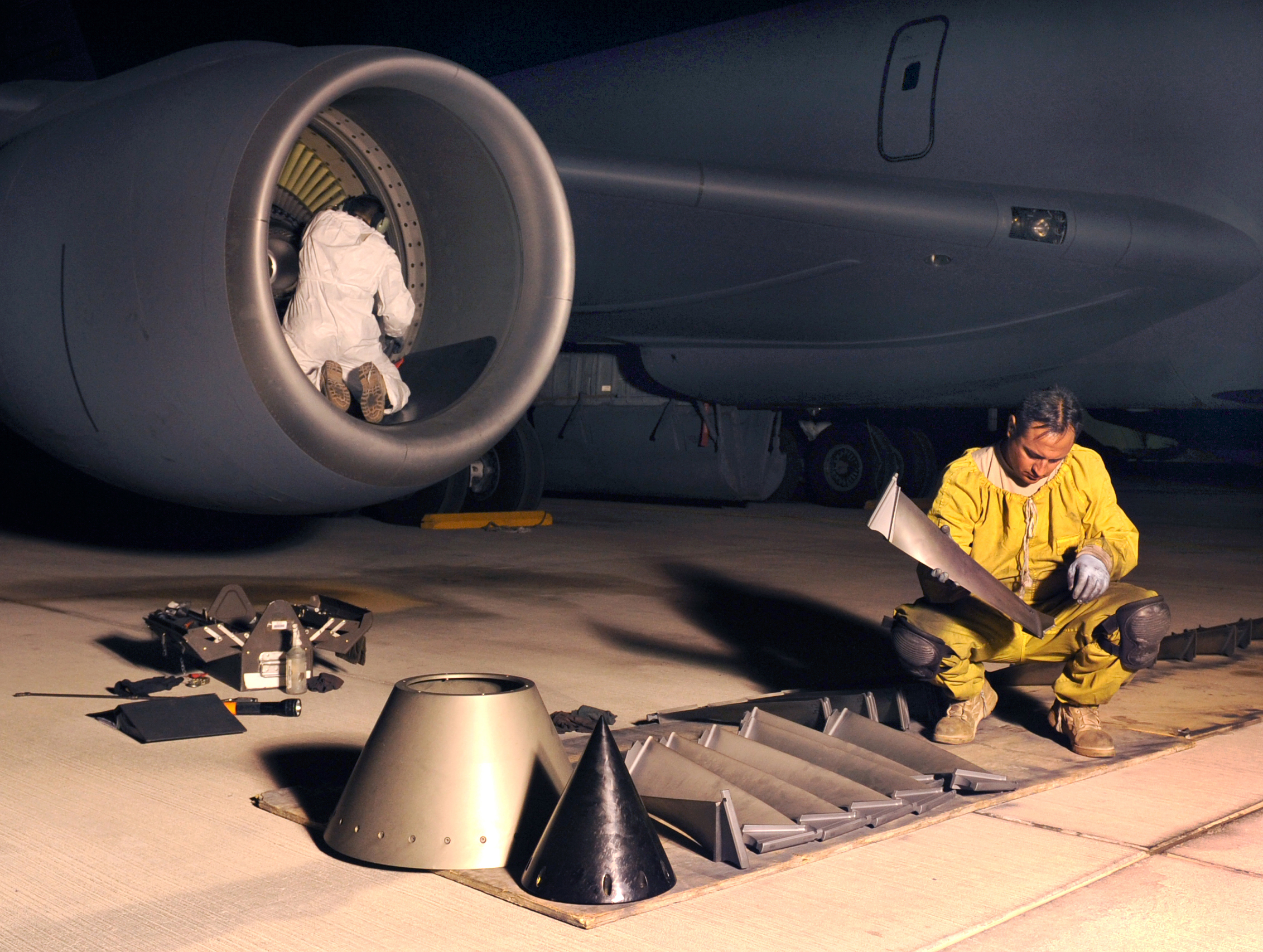 090108-F-9919G-746 Tech. Sgt. Joseph Vigil performs a final inspection of blades from the fan assembly of a KC-135 Stratotanker engine Jan. 8 at an air base in Southwest Asia prior to handing them to Tech. Sgt. Eric Peterson to place back in the engine. The fan assembly is inspected every 1,500 hours of engine run time and during the inspection the blades are examined for any defects that would prevent the engine from operating properly. Both sergeants, assigned to the 379th Expeditionary Aircraft Maintenance Squadron, are deployed from McConnell Air Force Base, Kan.